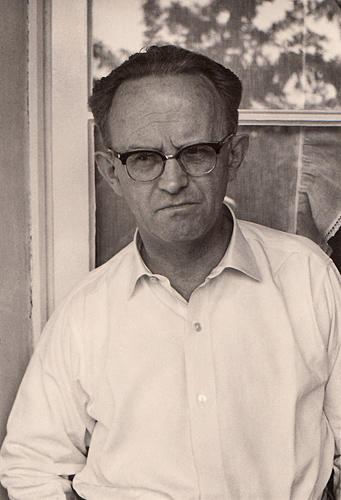 Lorenz Leisner, German artist (1906 - 1995)